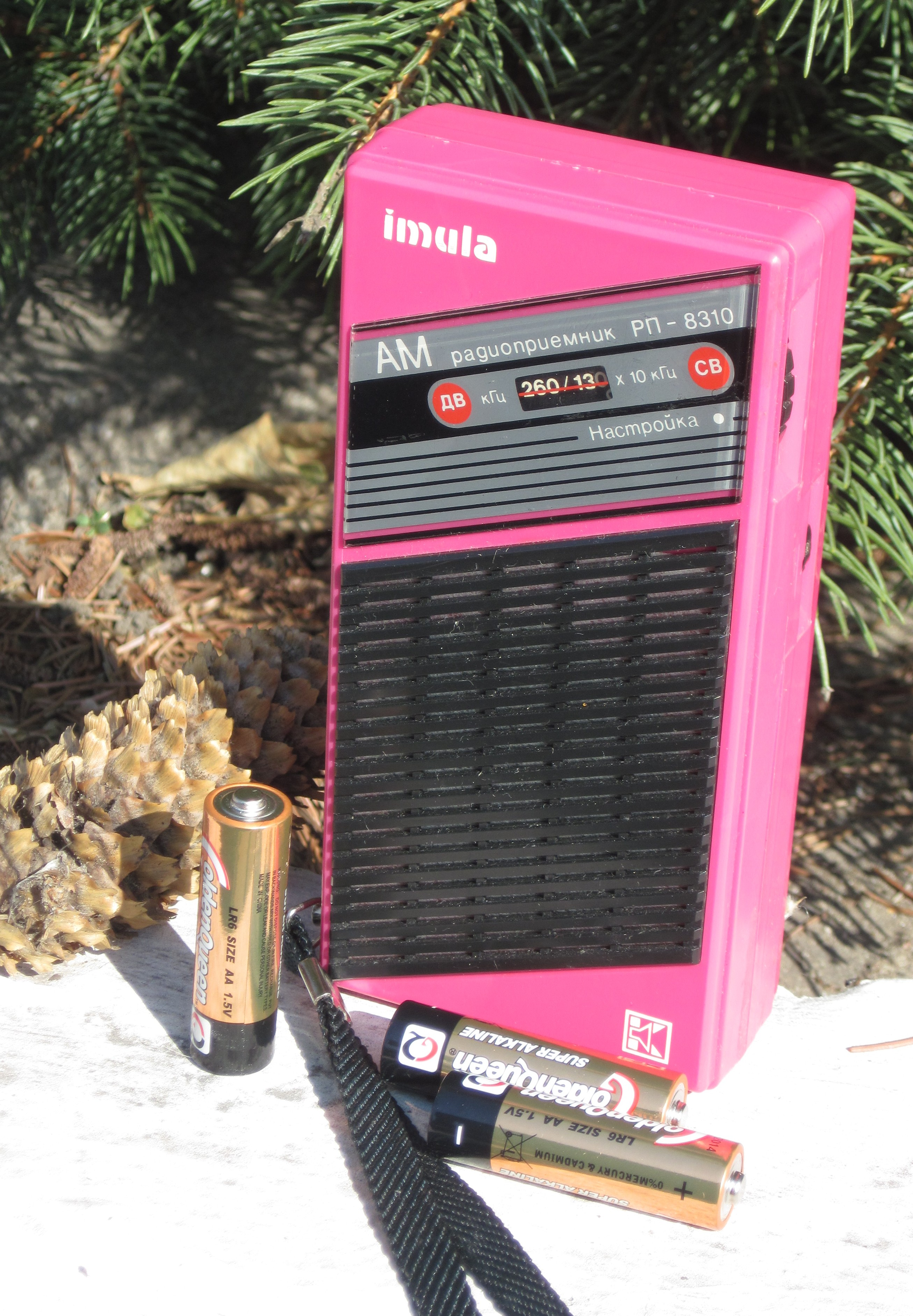 Imula RP8310 pocket AM receiver, Kandava Radio Plant (RRR), USSR, 1986